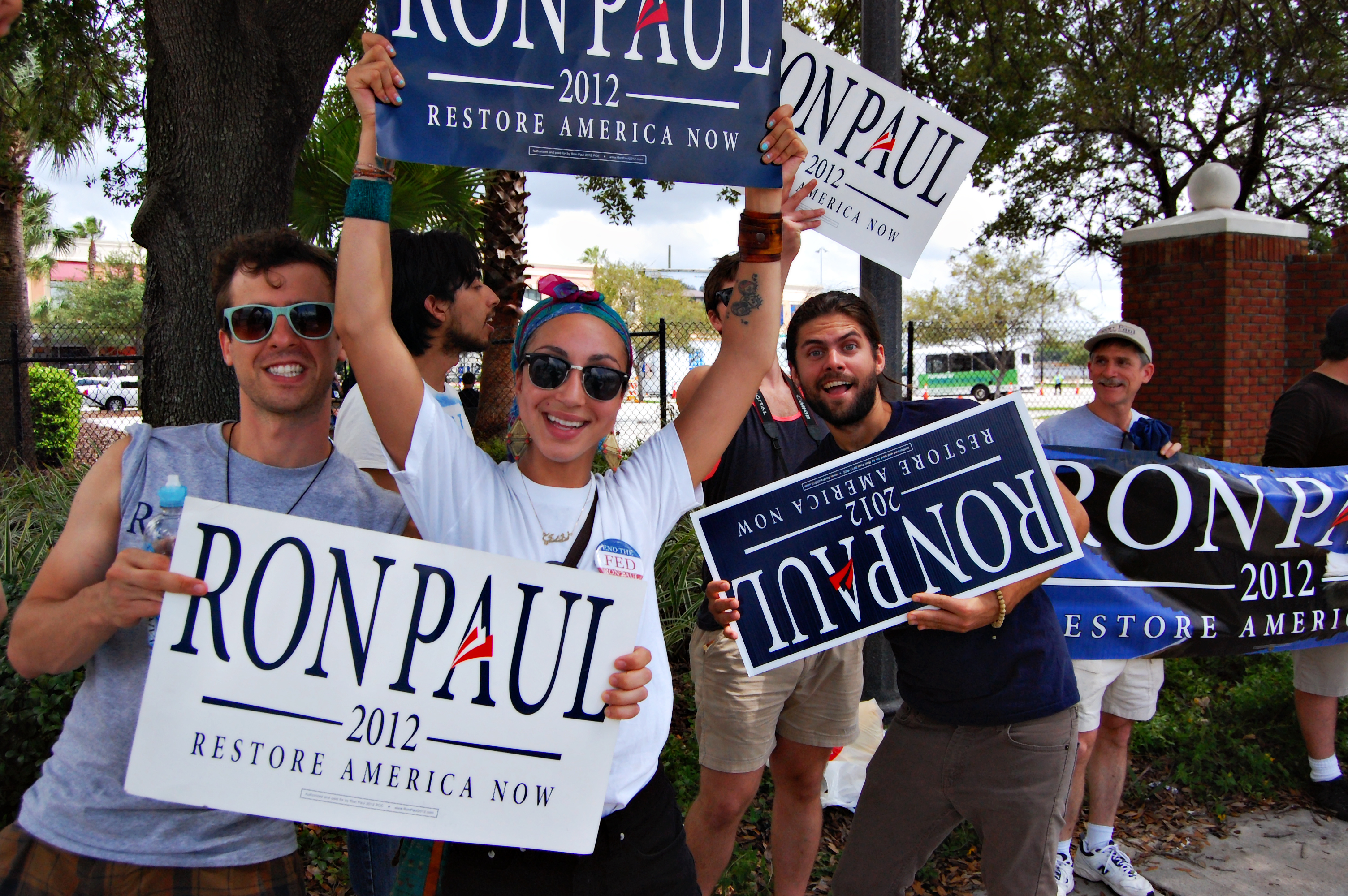 Ron Paul supporters protest outside the Republican National Convention in Tampa, Florida.